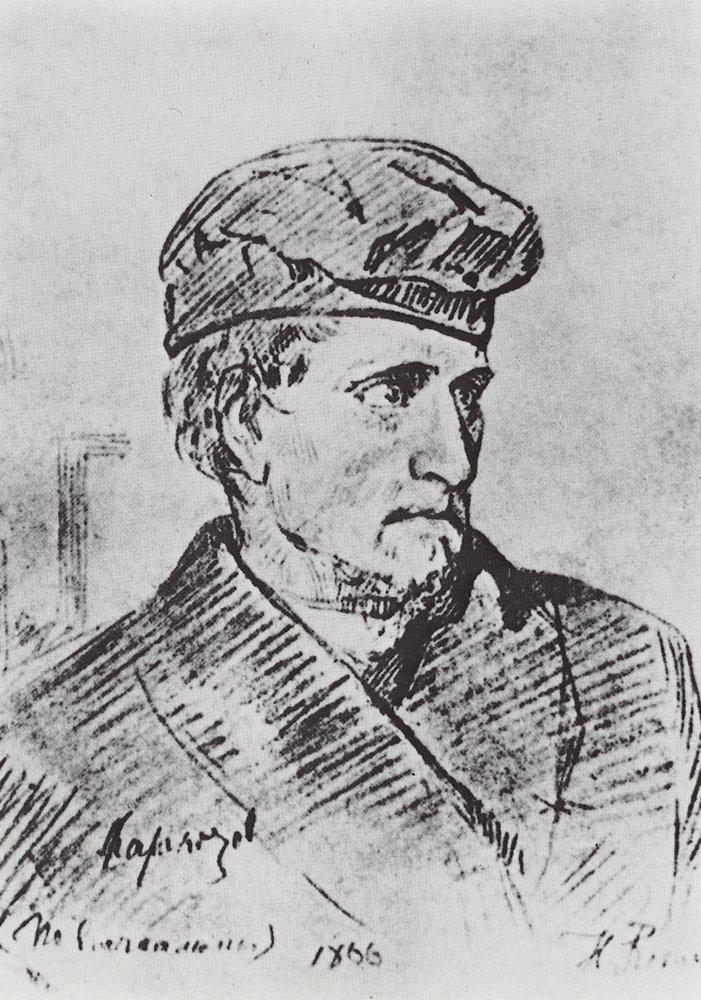 Portrait of revolutionary and terrorist Dmitri Vladimirovich Karakozov before his execution. Graphite pencil on paper.